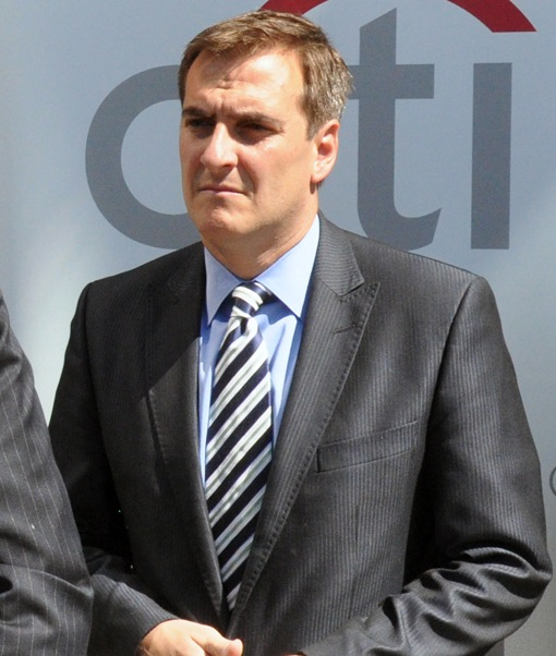 MTA officials and community leaders opened the new Court Square Subway Station Complex on June 3, 2011. The completion of this project creates an in-system link between the 7 train and the E, G and M trains. State Senator Michael Gianaris is in attendance. Photo by Metropolitan Transportation Authority / Felix Candelaria.